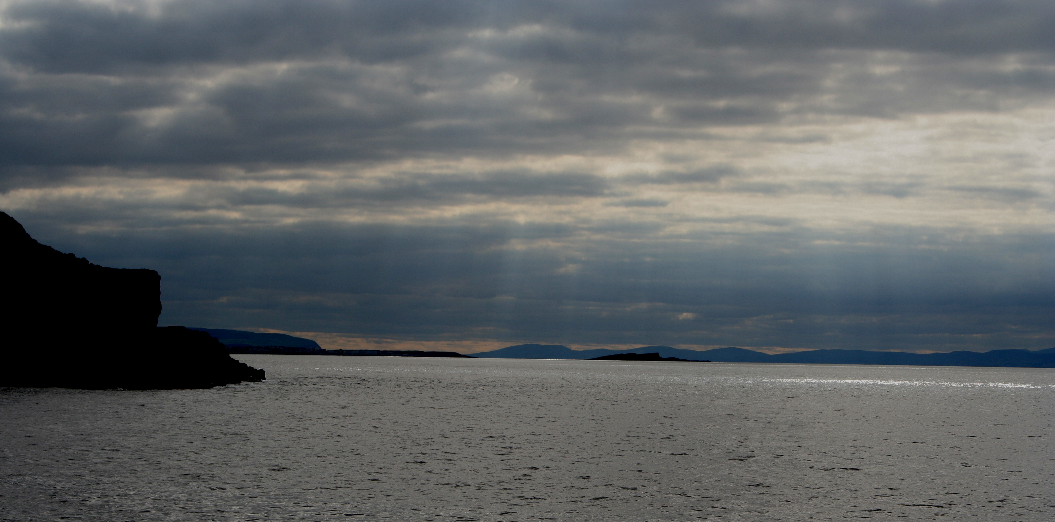 Strangford Lough after the rain